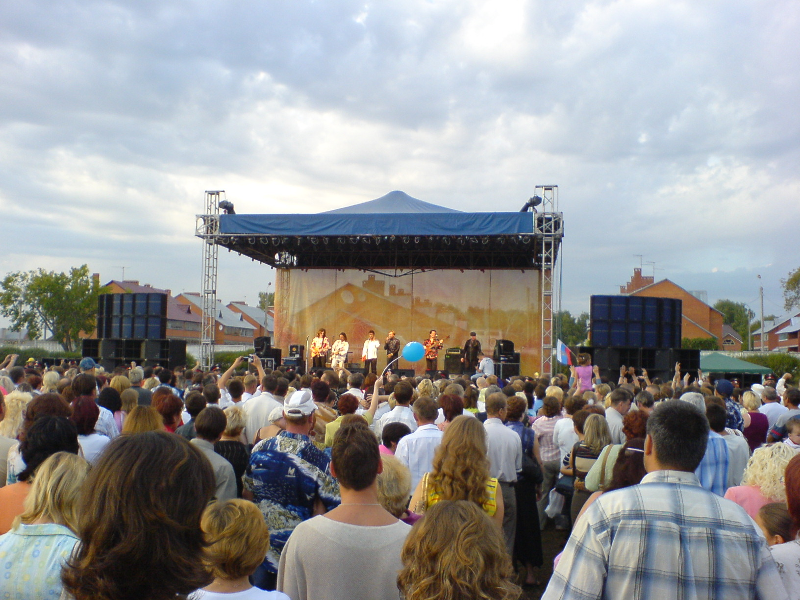 Pesnyary, a music band from Belarus at a charity concert in Ishimbay